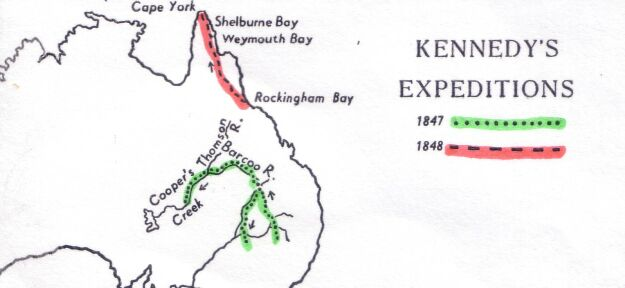 Map of the explorer's route in Australia. This image is of Australian origin and is now in the public domain because its term of copyright has expired. According to the Australian Copyright Council (ACC), ACC Information Sheet G023v16 (Duration of copyright) (Feb 2012). Type of materialCopyright has expired if ... A Photographs or other works published anonymously, under a pseudonym or the creator is unknown:taken or published prior to 1 January 1955 B Photographs (except A):taken prior to 1 January 1955 C Artistic works (except A & B):the creator died before 1 January 1955 D Published editions1 (except A & B):first published more than 25 years ago E Commonwealth or State government owned2 photographs and engravings:taken or published more than 50 years ago and prior to 1 May 1969 1 means the typographical arrangement and layout of a published work. eg. newsprint. 2owned means where a government is the copyright owner as well as would have owned copyright but reached some other agreement with the creator. When using this template, please provide information of where the image was first published and who created it.